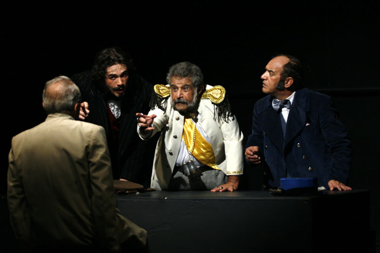 Ward No. 6 by Anotn Chekhov